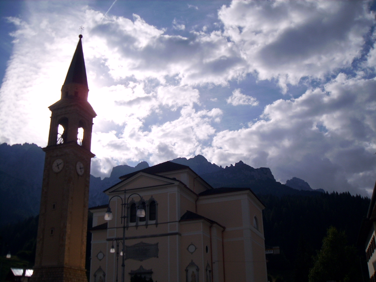 Silhouette of bell tower, clouds and mountains in Padola part of Comelico Superiore, province of Belluno, Dolomites, Italy